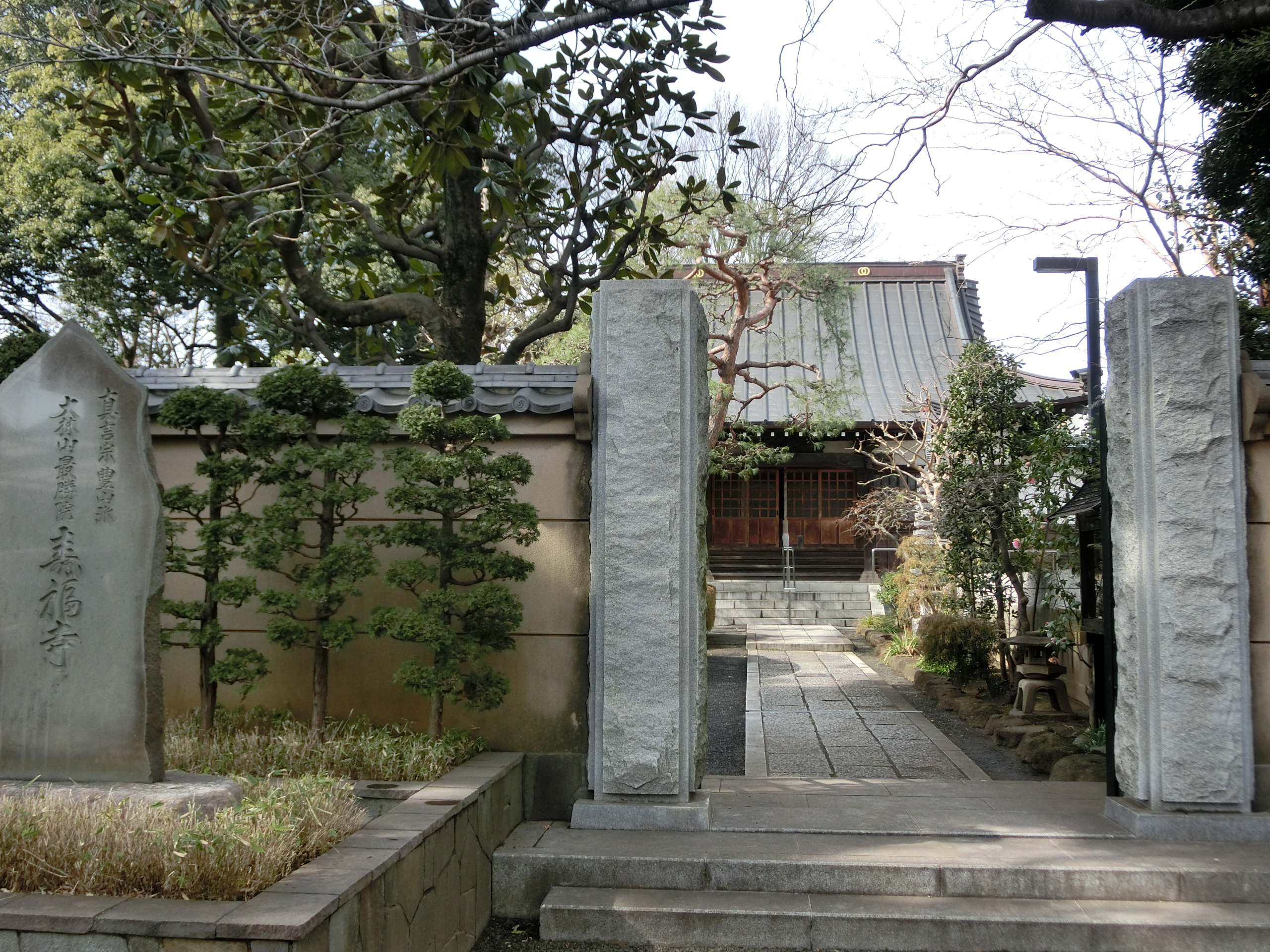 Jufuku-ji (Nerima)